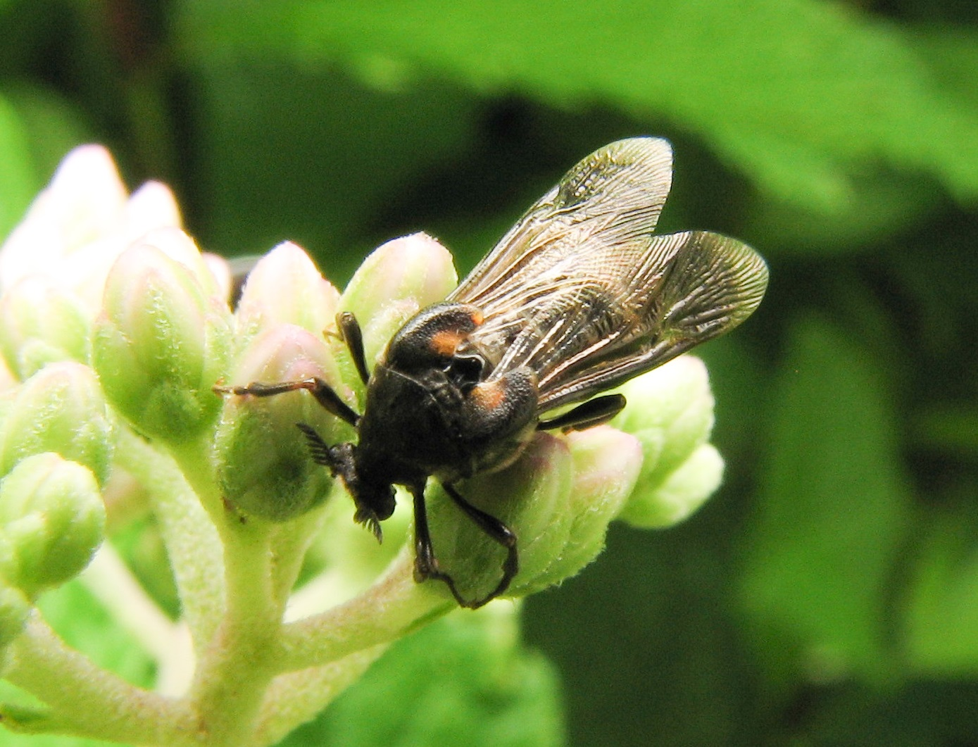 Wdge-shaped beetle, Ripiphorus fasciatus-complex. Female. Size: 8 mm. Pennypack Restoration Trust, Montgomery County, Pennsylvania, USA.